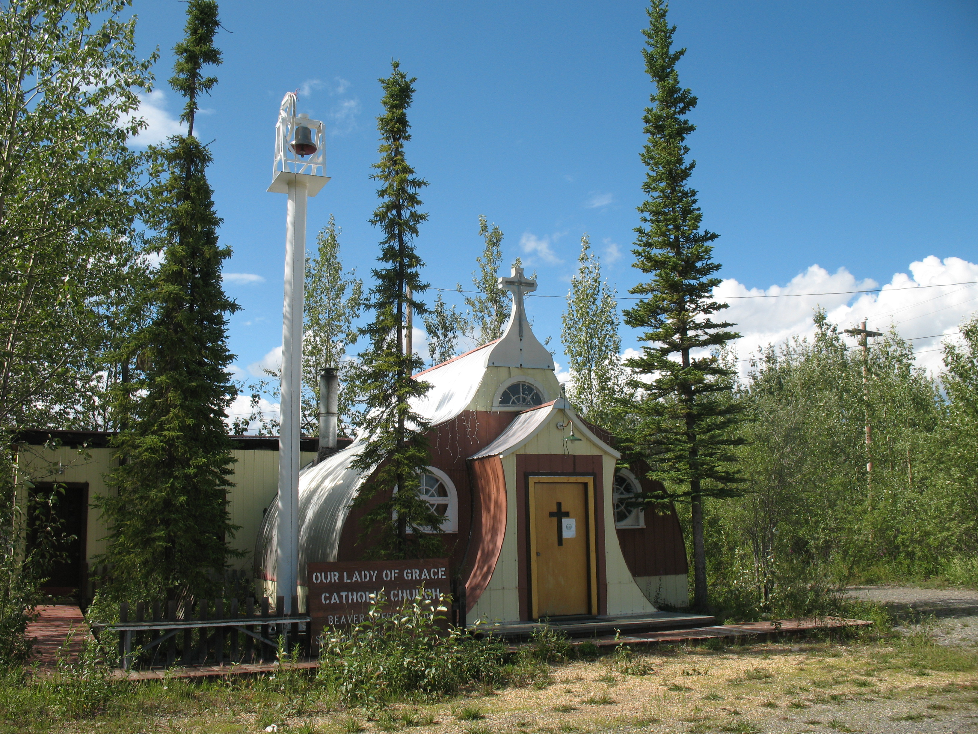 Church in Beaver_Creek namend_Lady_of_Grace